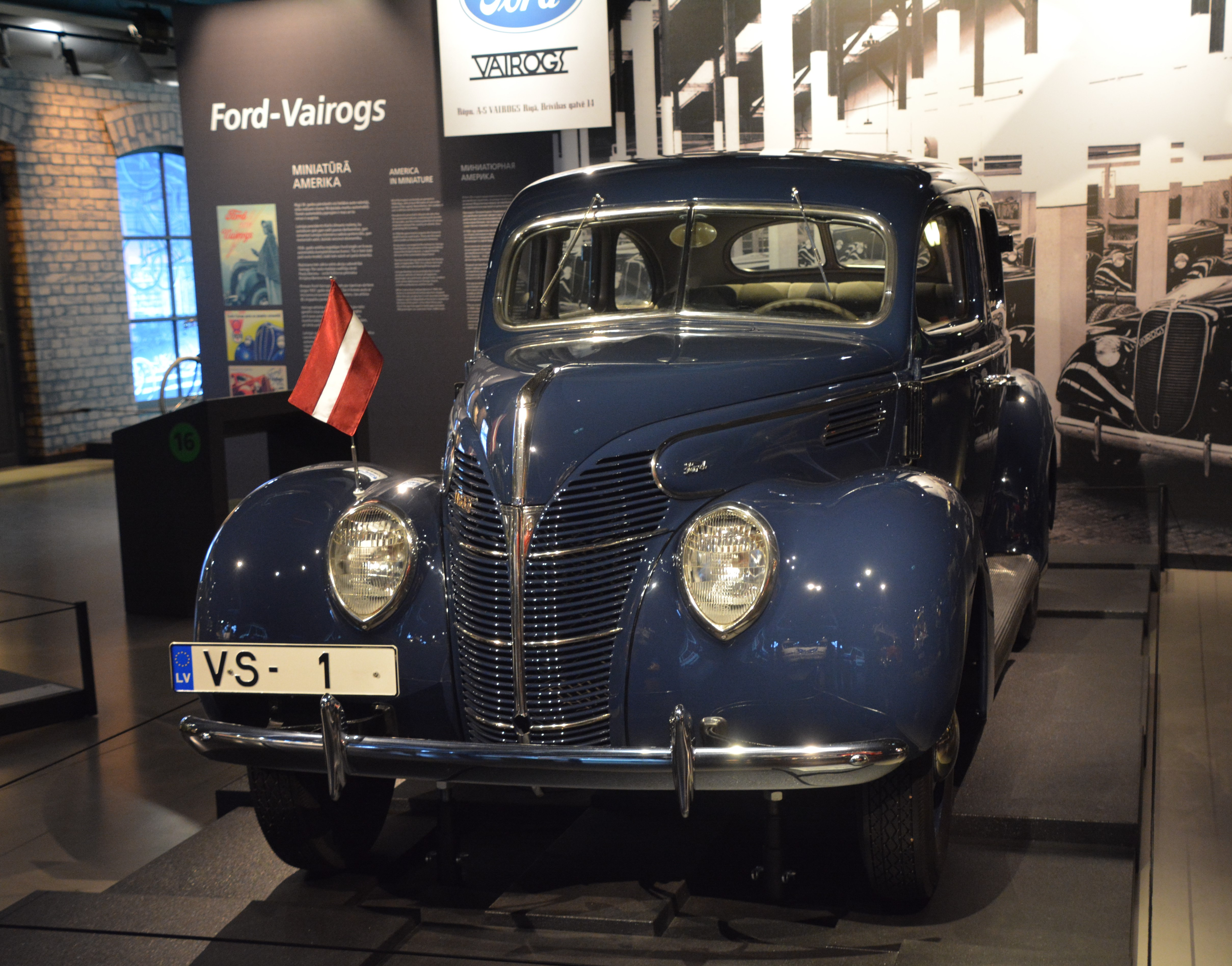 Ford Vairogs Standard V8, 1939 model. 2,228 cc, 60 hp, 120 km/h,1,293 kg Riga Motor Museum